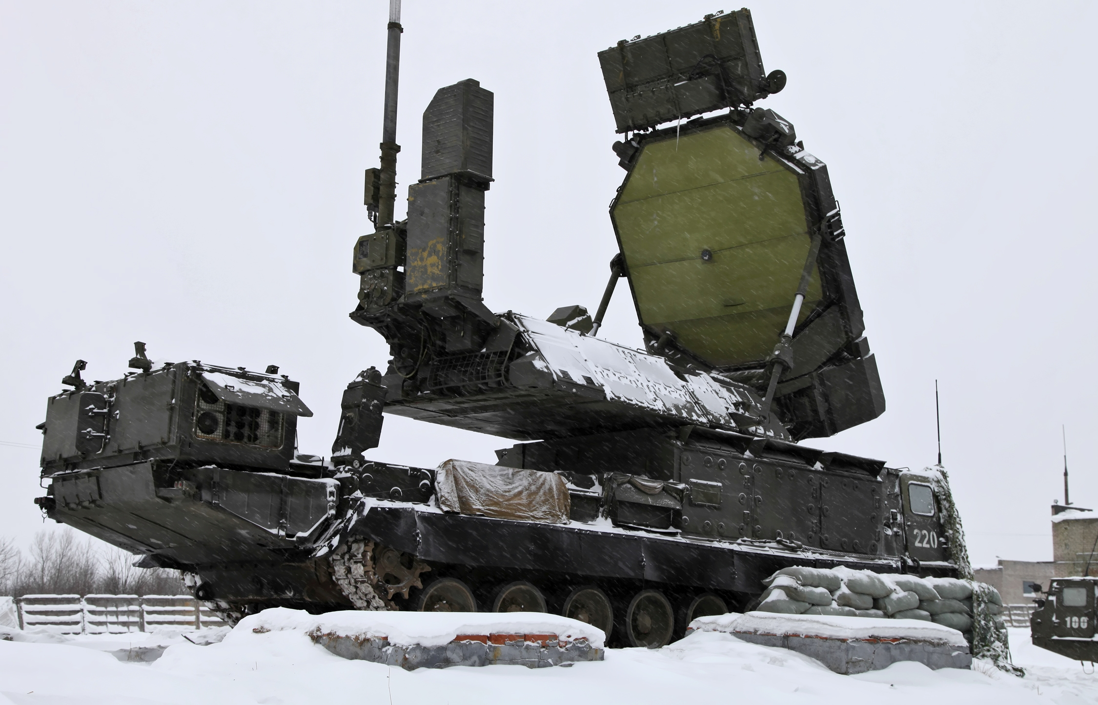 The 202nd Air Defence Brigade in the Western Military District in Russia. This air defence brigade is equipped with S-300V-SAMs. This brigade received these systems in 1989.